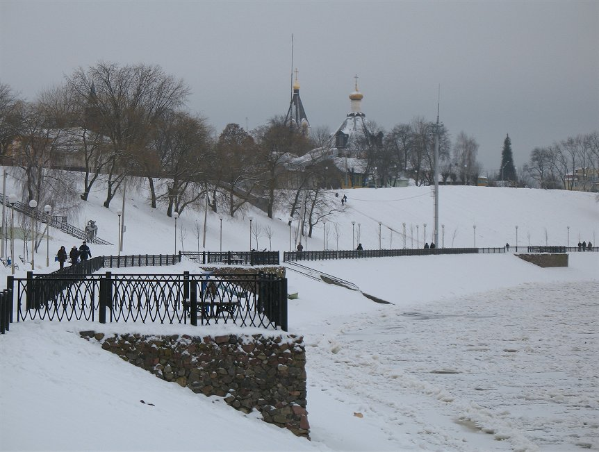 River side view along river Dnepr, of Rechytsa town, located in Gomel oblast, Belarus.